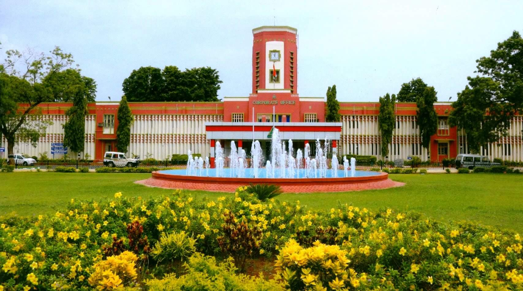 NLCIL Corporate Office, Neyveli, Tamil Nadu